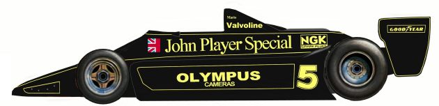 The Lotus 79, formula 1 car of 1978